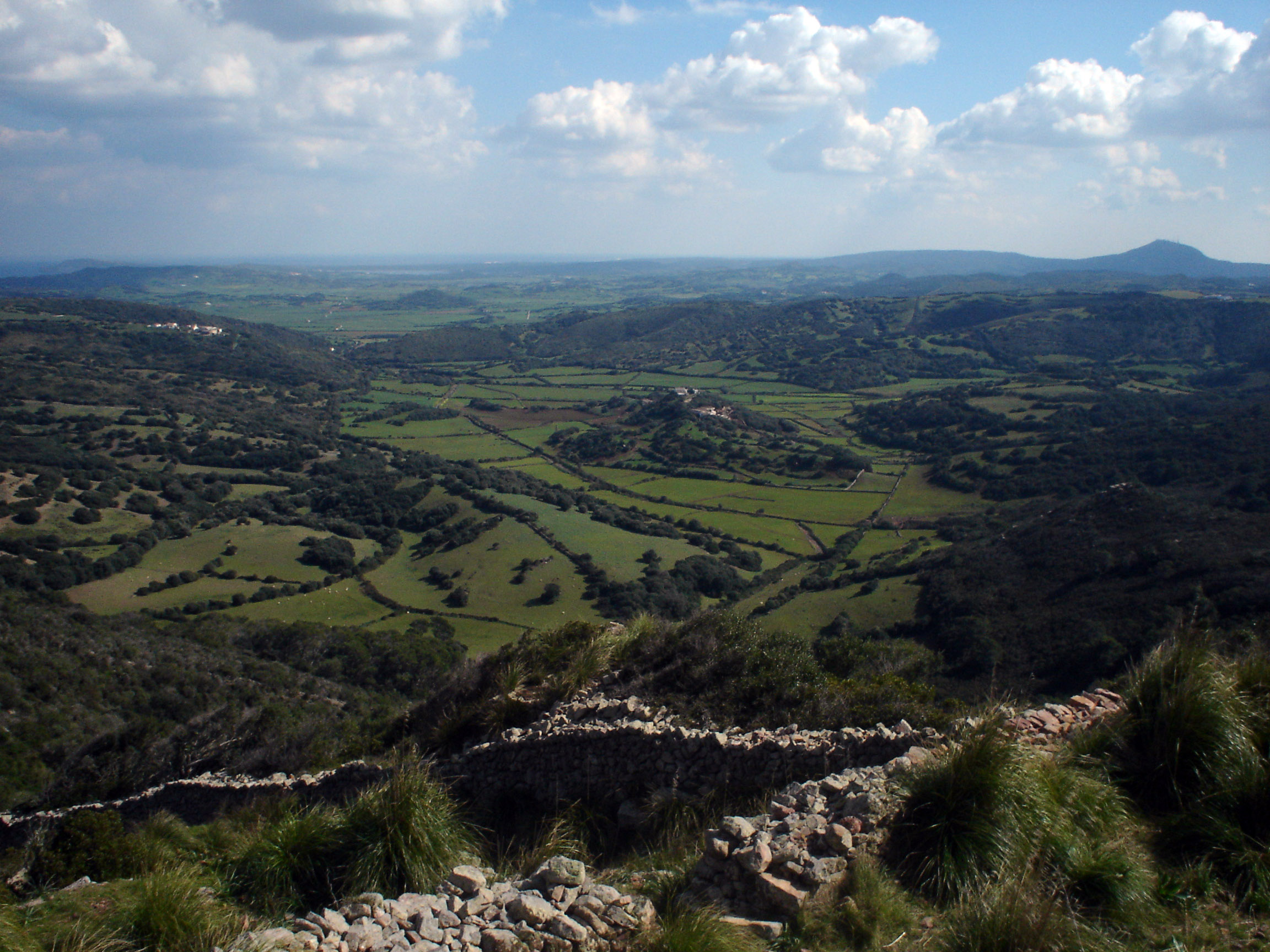 Author: Francisco Valverde Taken at Santa Àgueda, Minorca (Spain)